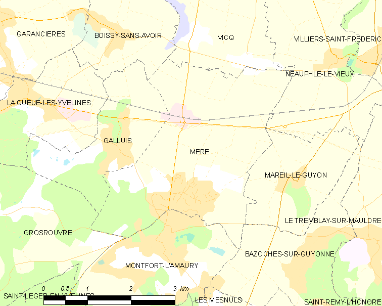 Map of French municipality Méré